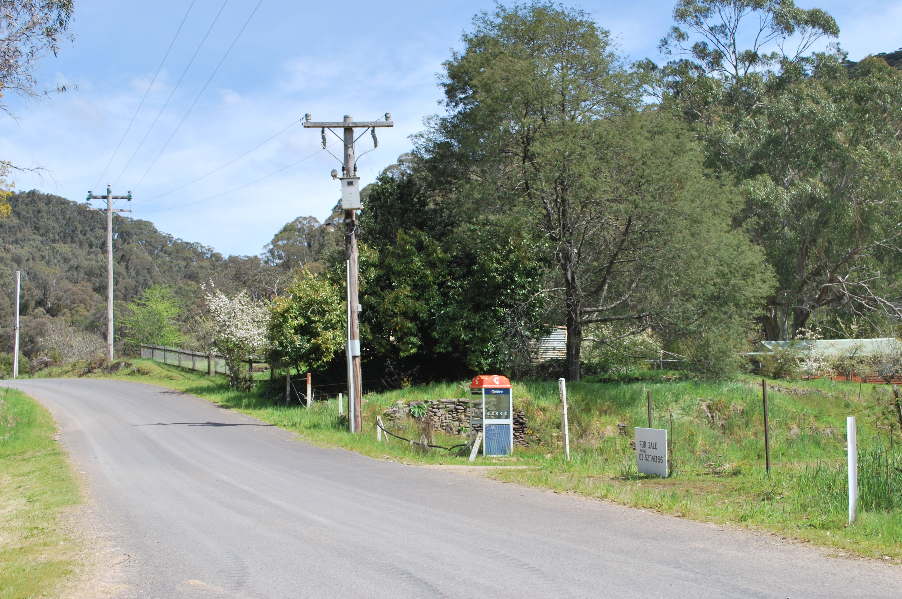 A phone booth (on the site of the former pub?) in Gaffneys Creek, Victoria